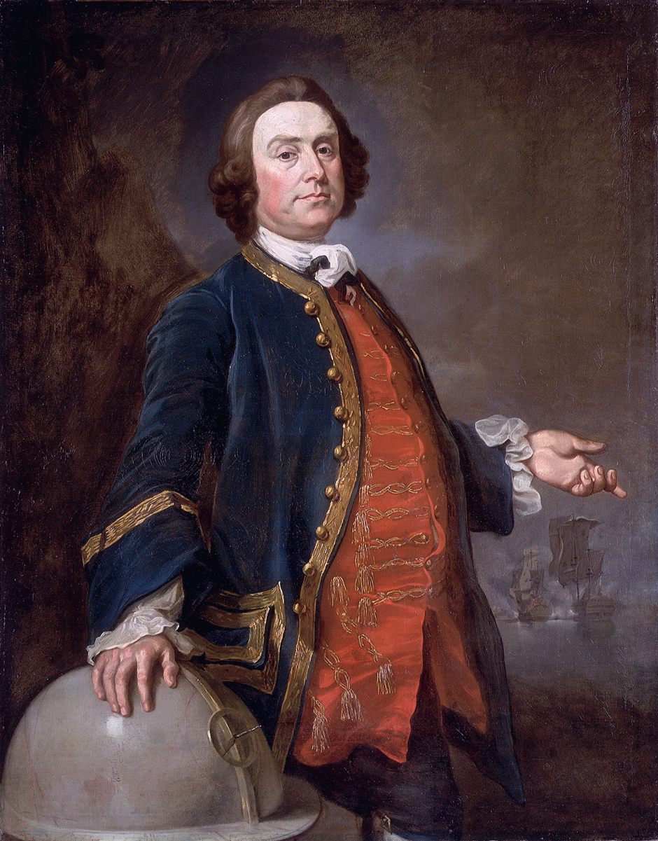 Commodore George Walker (before 1700 - 1777) oil on canvas 129 x 102 cm ca. 1750